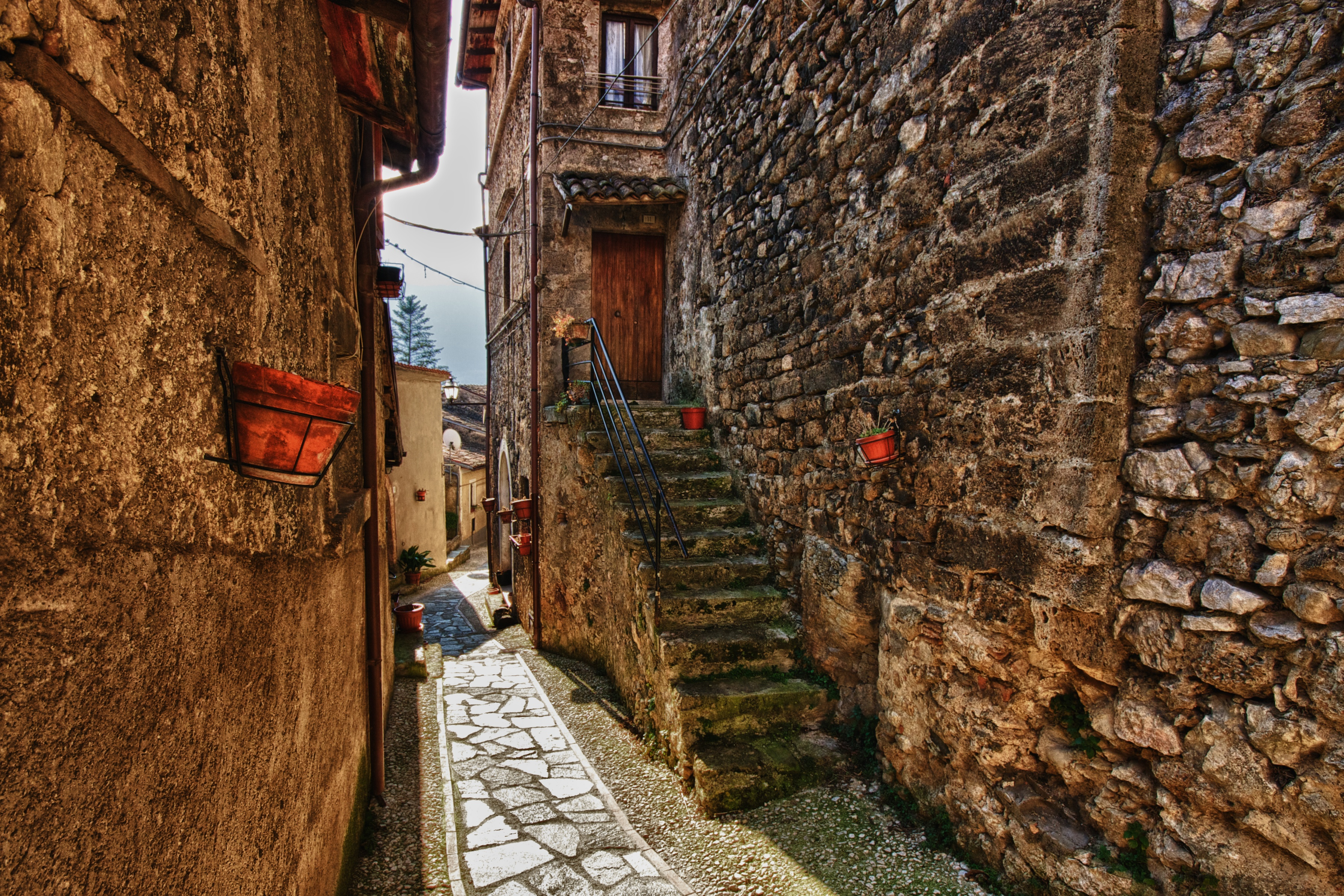 Catino (province of Rieti, Lazio, Italy)